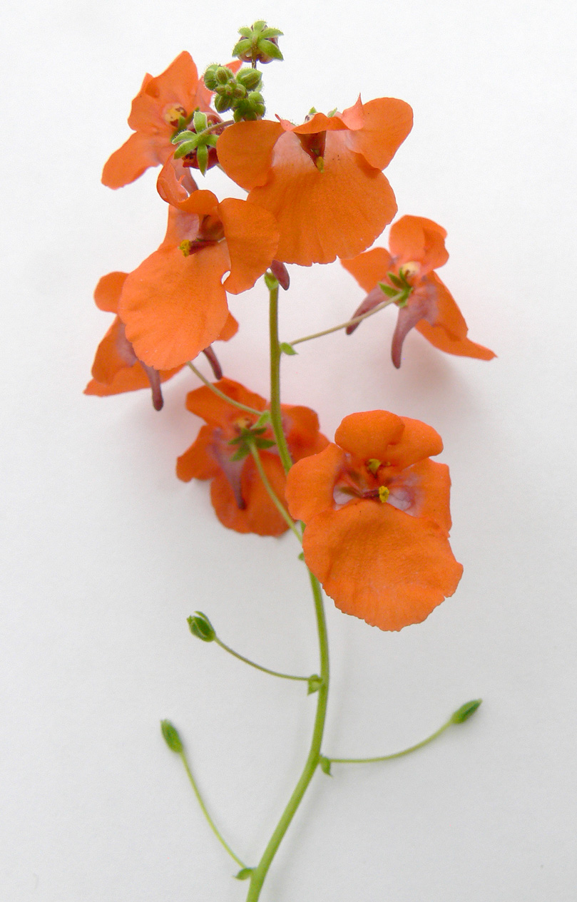 A raceme of flowers of Diascia LITTLE TANGO , a commercial hybrid summer bedding plant, showing front, back and side views of the corolla. The plant's common name, twinspur, refers to the two curved spurs on the back of the flower.